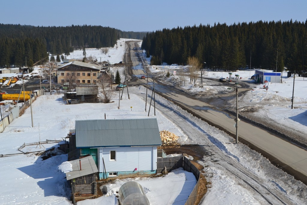 Russia. Nyazepetrovsk